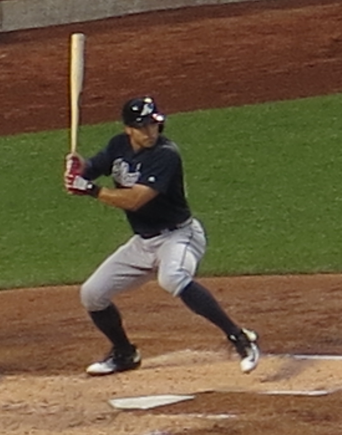 Chase d'Arnaud with the Atlanta Braves, June 17, 2016.